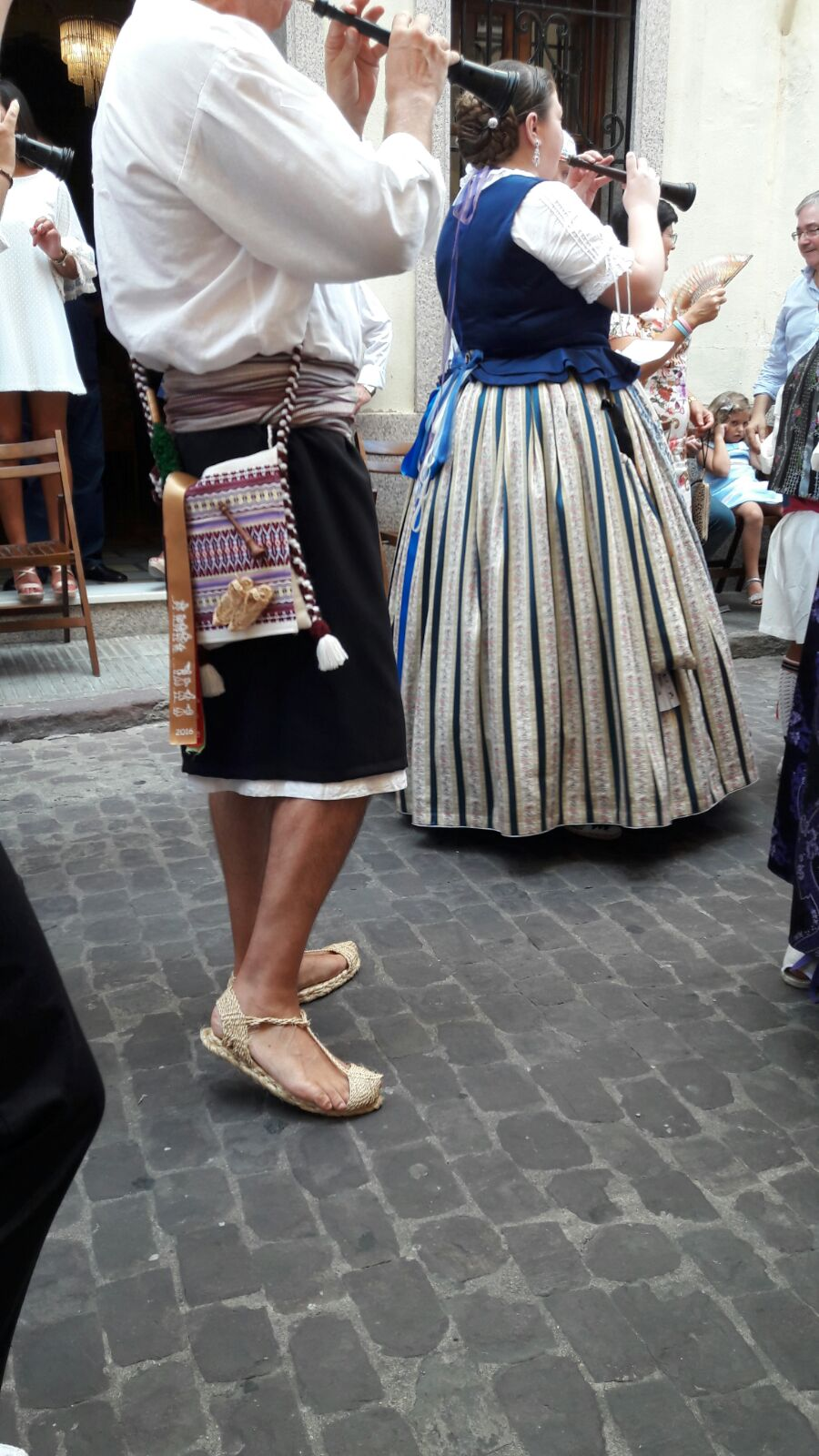 Mare de Déu de la Salut. Valencian tabaleters during folk celebration in Algemesi La Mare de Déu de la Salut Festival is celebrated in September 8, in Alegemesi, Spain and commemorates the legendary discovery in 1247 of a statue depicting the Madonna and Child.